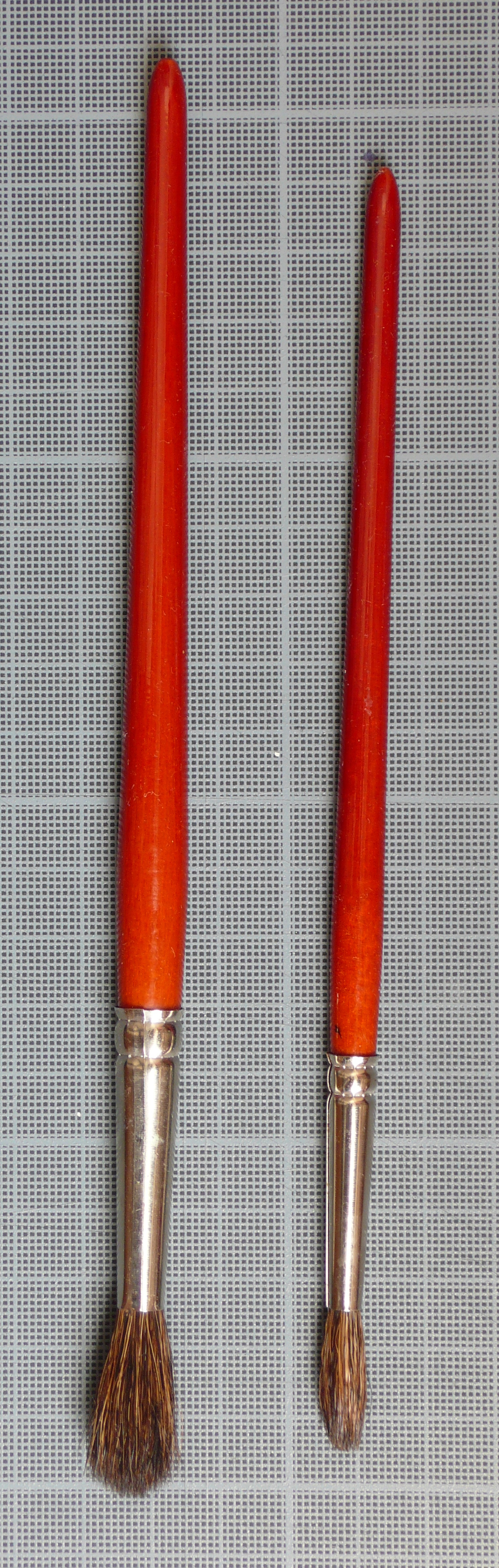 Technical, neutral photograph of two watercolour paintbrushes.